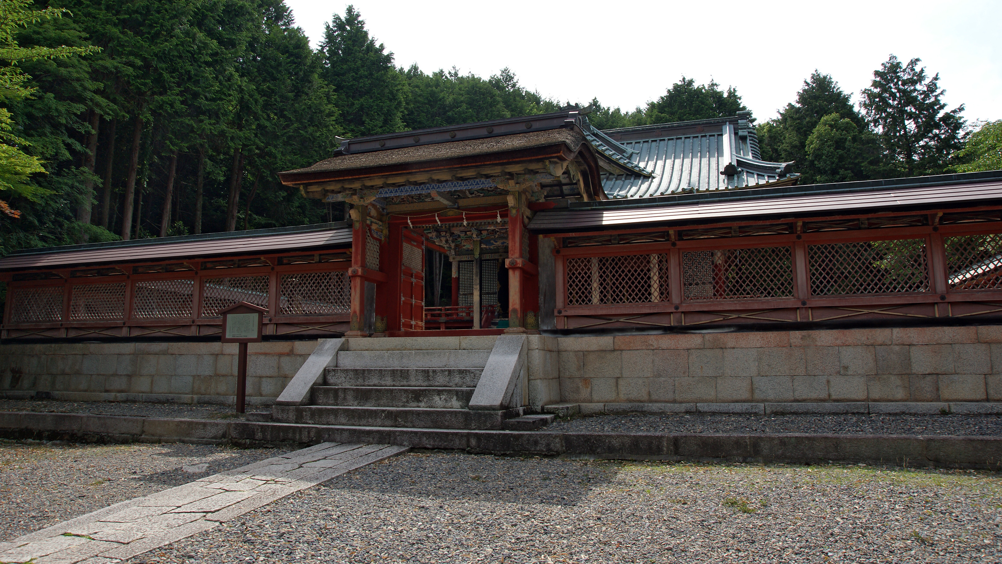 Hiyoshi Toshogu in Sakamoto, Otsu, Shiga prefecture, Japan